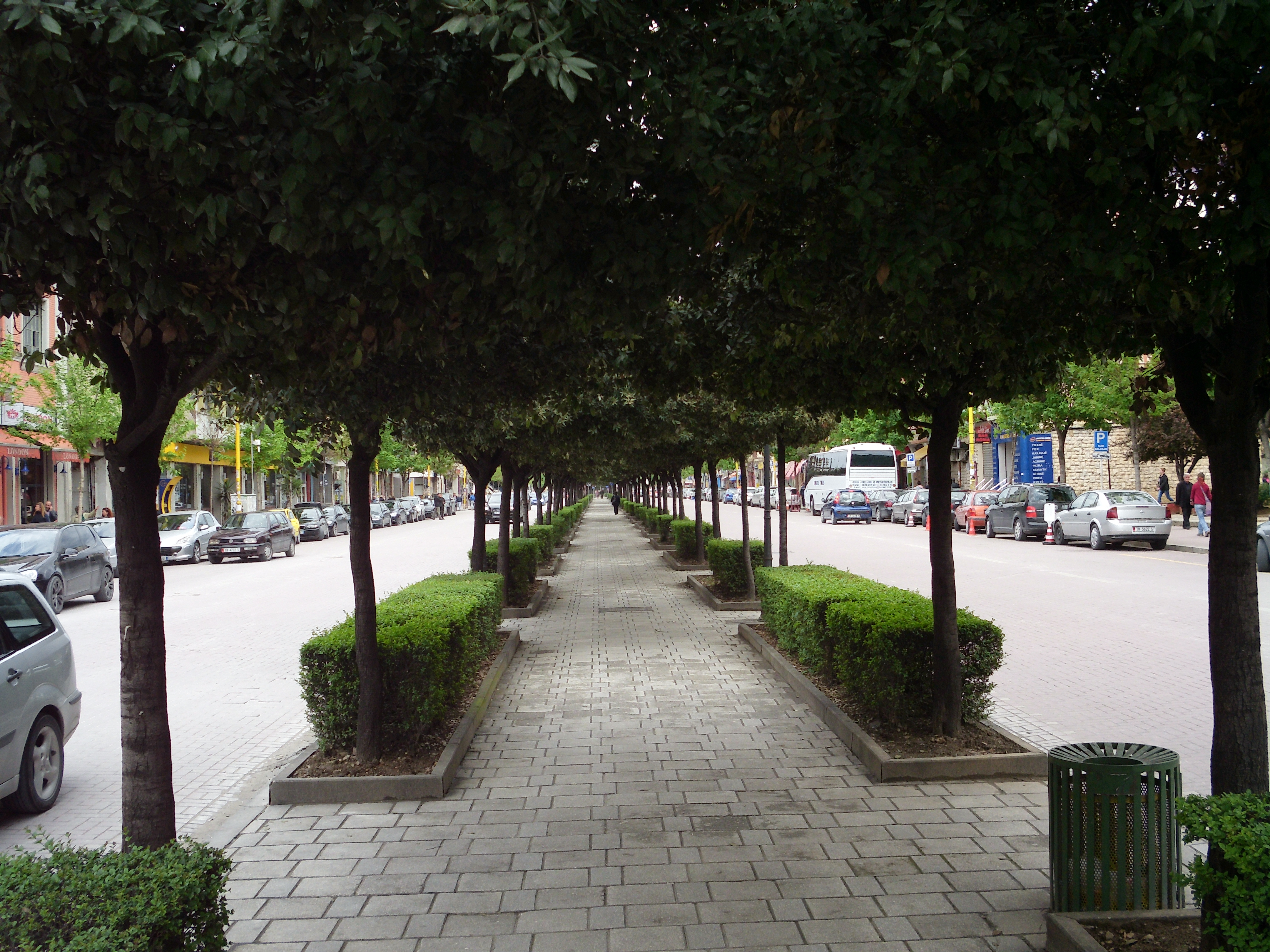 Central walkway on Bulevardi Zogu I. in downtown Tirana, Albania.